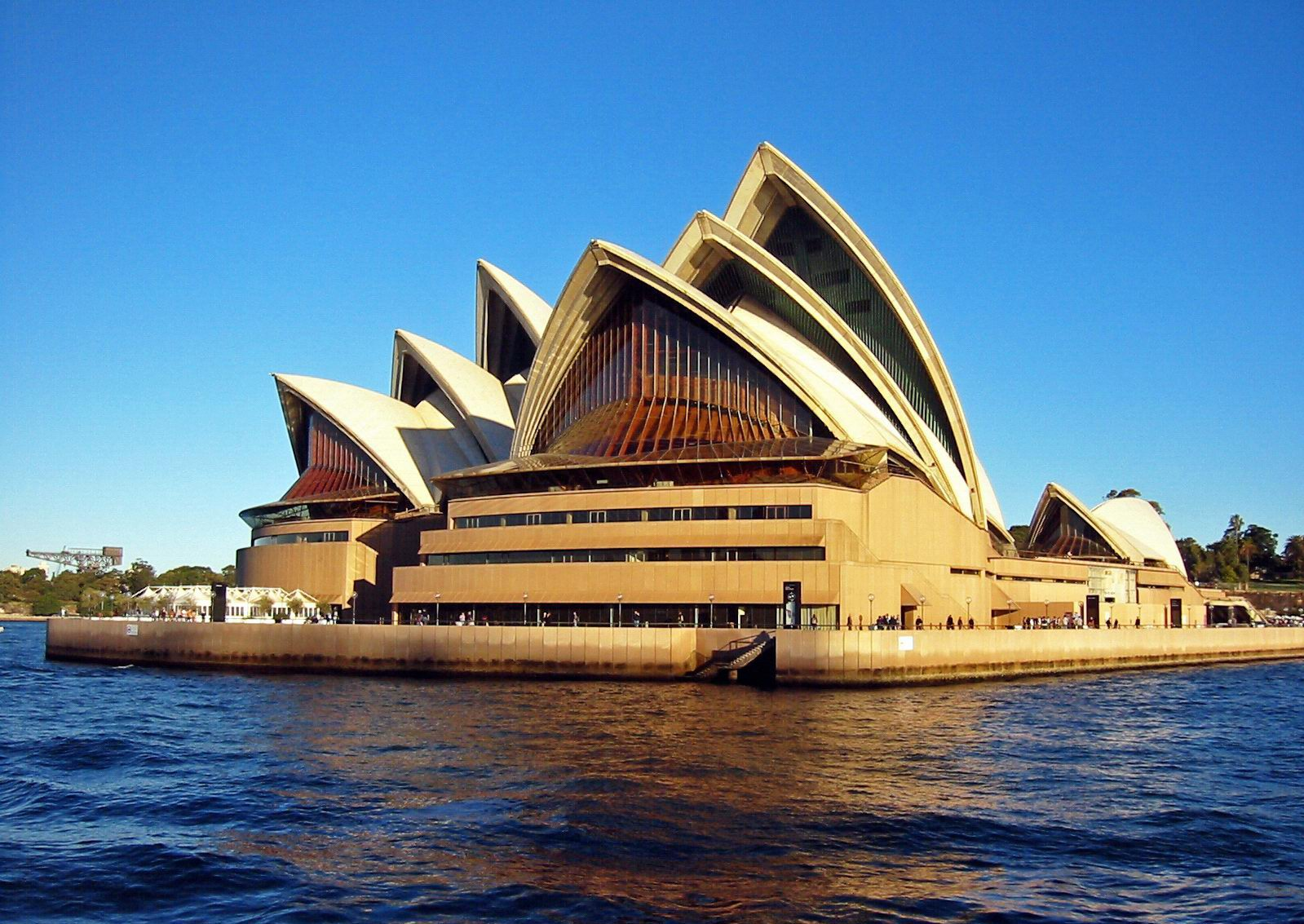 Sydney Opera House, Australia